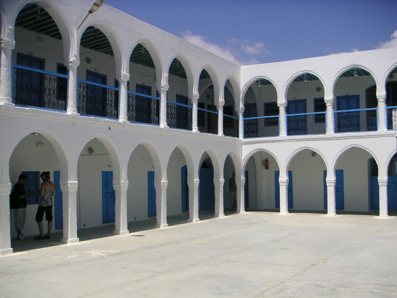 Residency of the Ghriba Synagogue used to host Jewish pilgrims